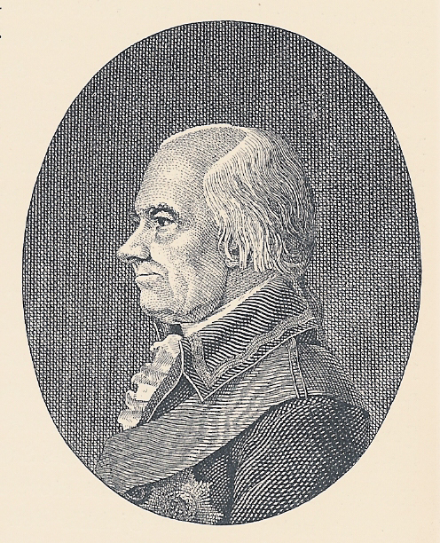 Heinrich Wilhelm von Huth. 1717-1806.